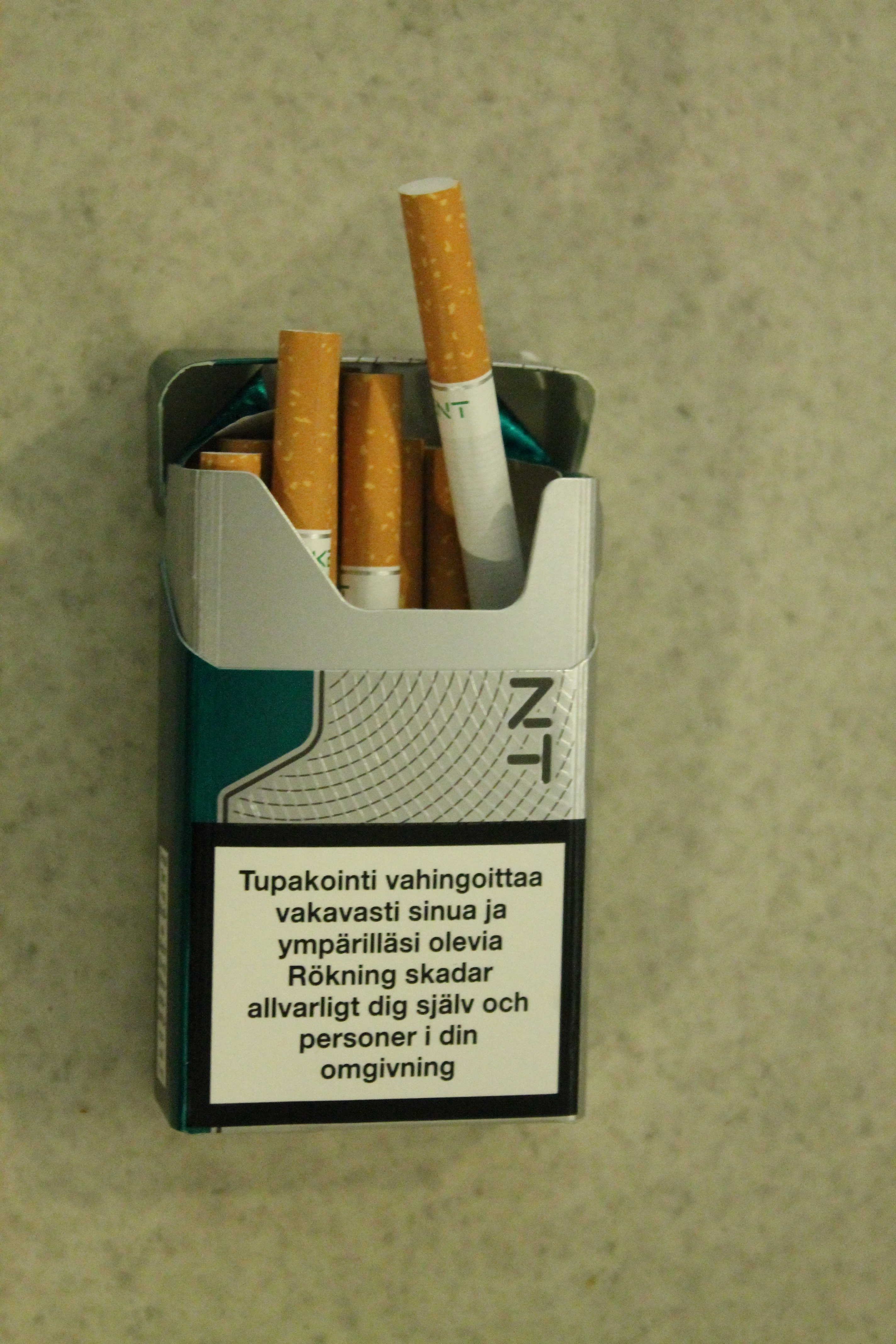 Kent Mintek -light cigarettes, 0,1mg of nicotine per cigarette